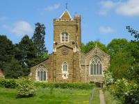 West end of St Mary the Virgin parish church, Maulden, Buckinghamshire, seen from the southwest